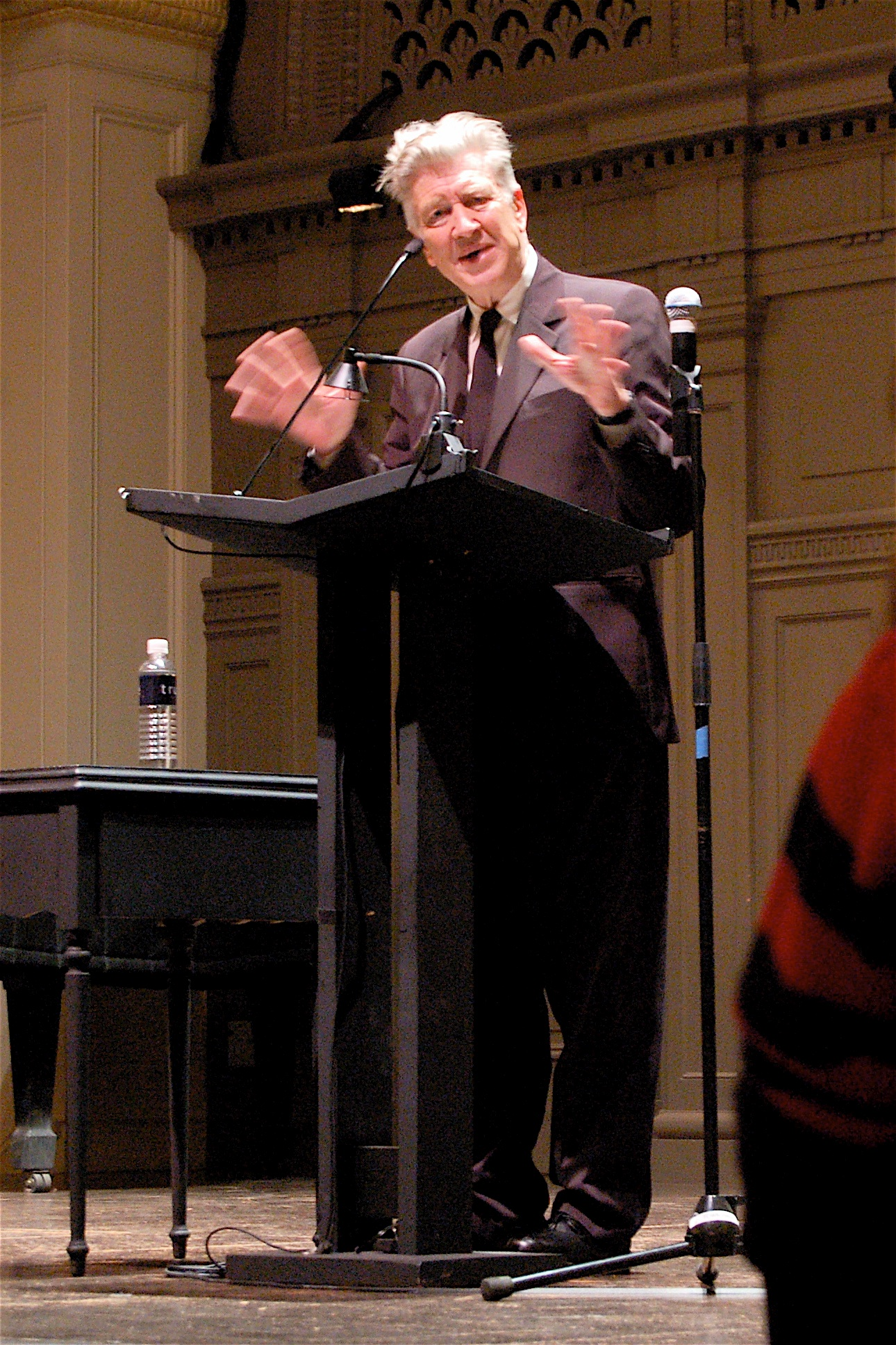 David Lynch speaking at the Town Hall, Seattle, Washington, January 16, 2007. Audio of the speech is at